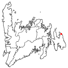 Map, St. John's, Newfoundland